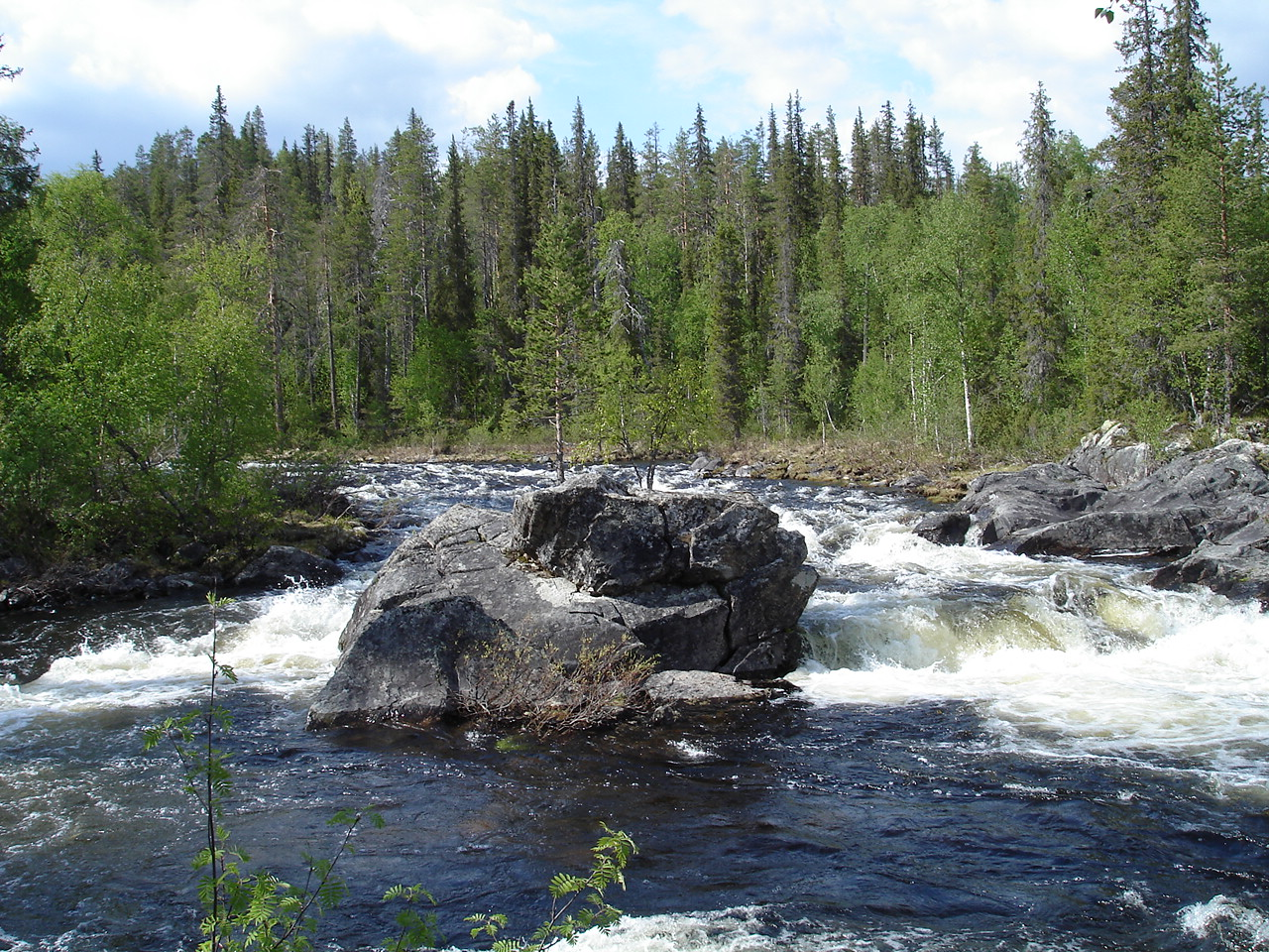 Karelskiy Bashkaus River